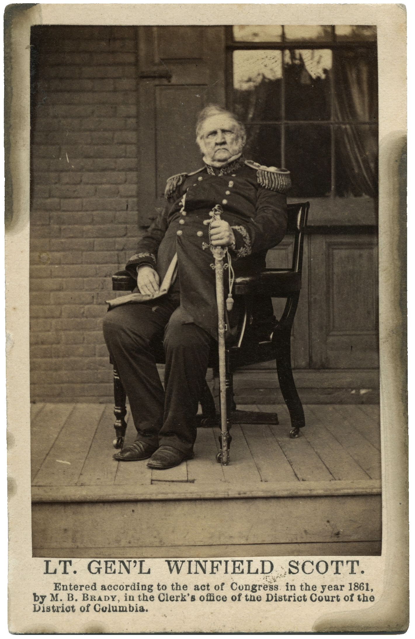 Carte de Visite of Lieutenant General Winfield Scott, Union Army.